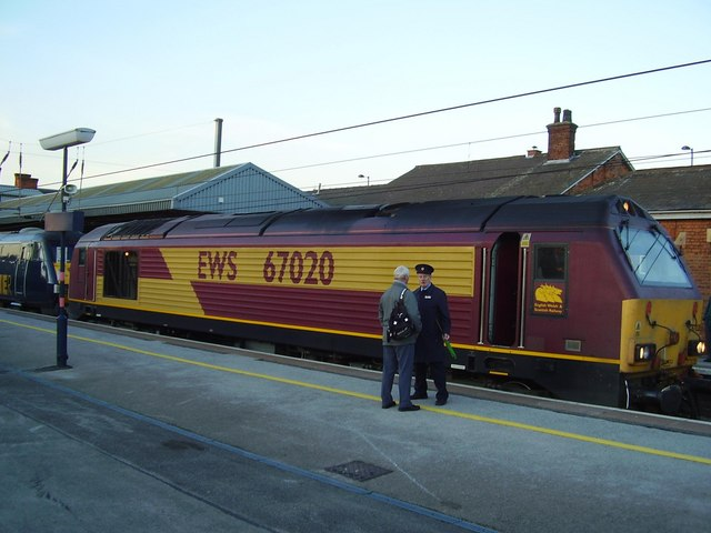 EWS class 67 on a failed GNER service